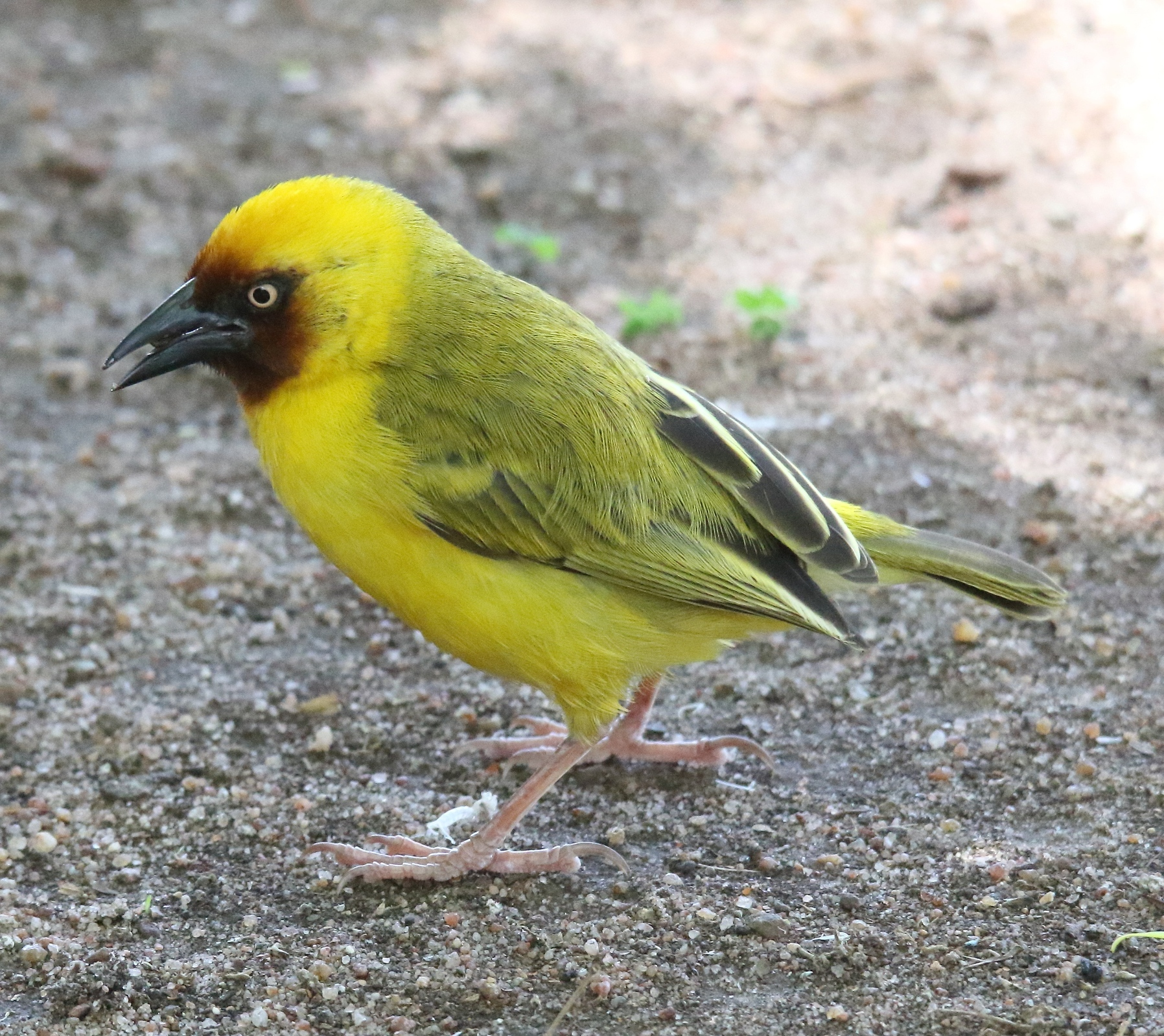 Northern Brown-throated Weaver (Ploceus castanops)